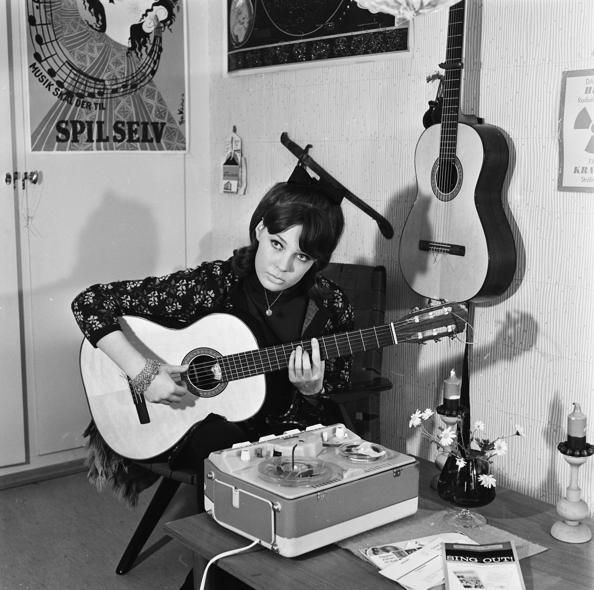 Norwegian singer Åse Kleveland photographed in her home.